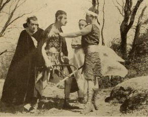 Success rebuking Might in the 1915 film, The Absentee.